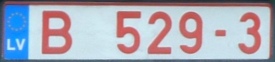 Dealer license plate from Latvia